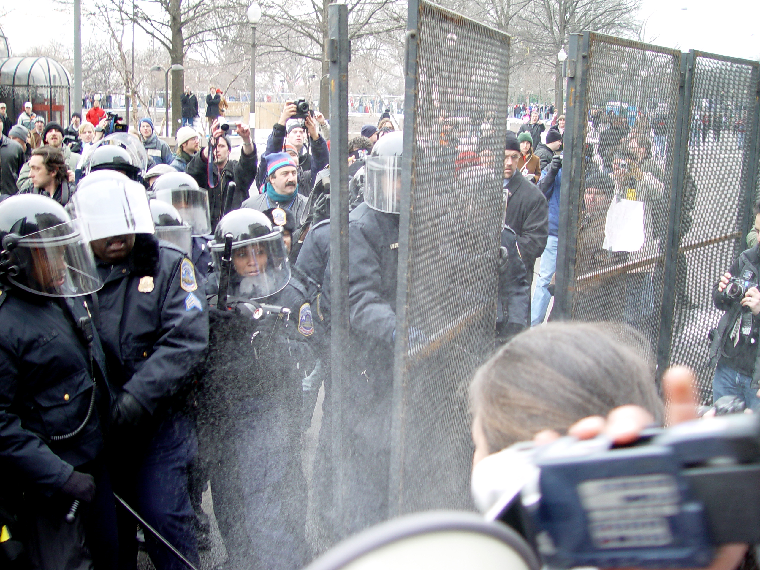 Police pepper spraying protesters at Bush's 2nd inauguration, Washington DC.